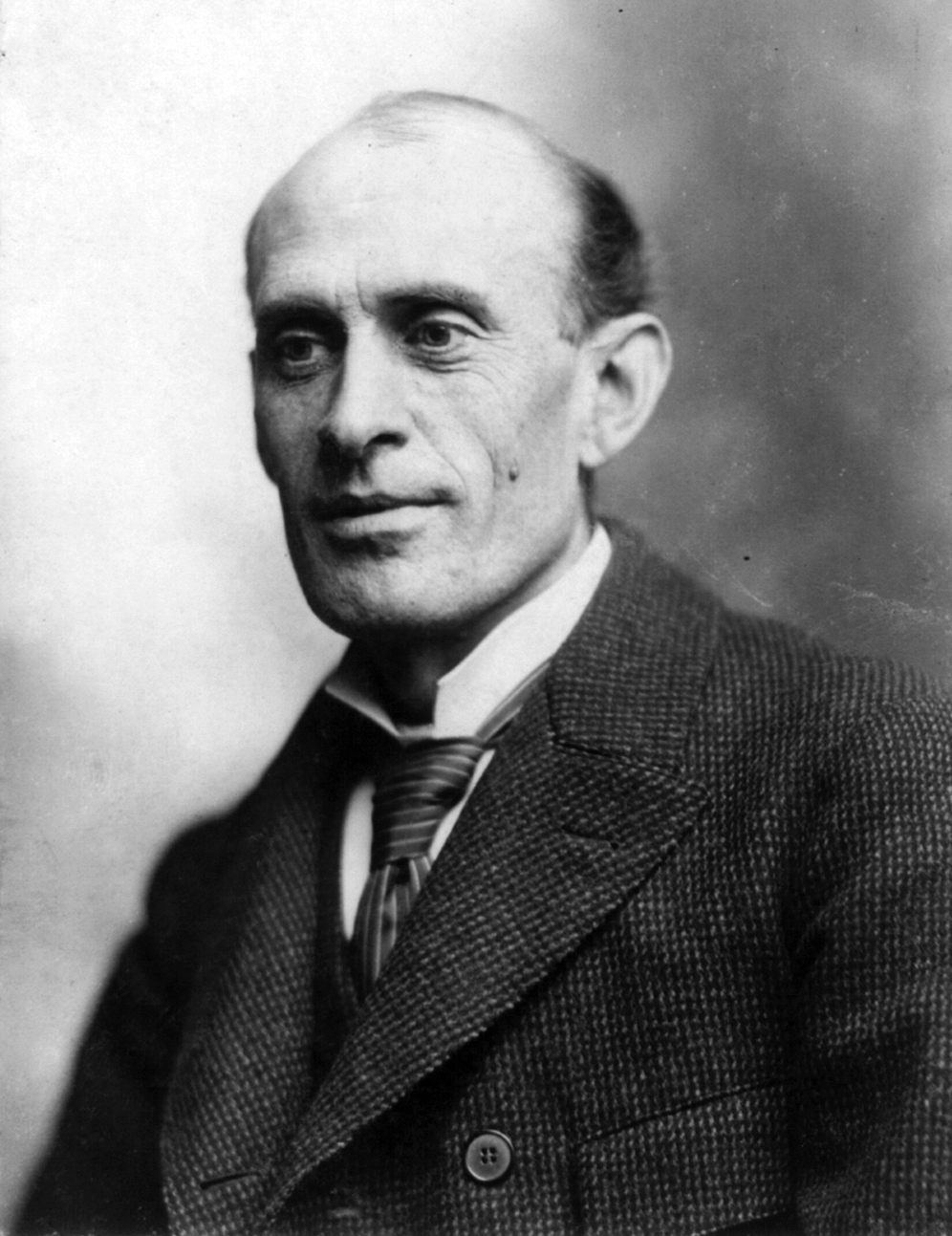 Eugene Field, head-and-shoulders portrait, facing left